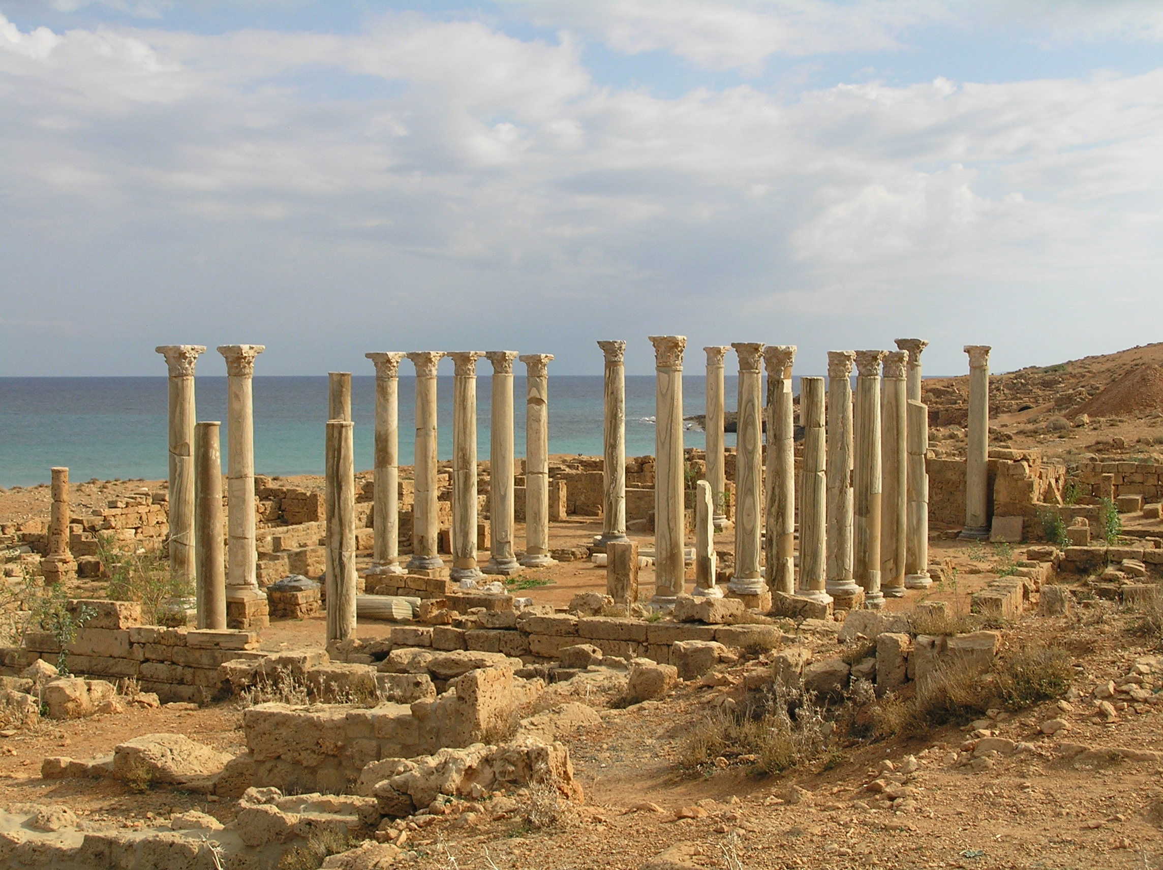 Byzantine east basilica in Apollonia.